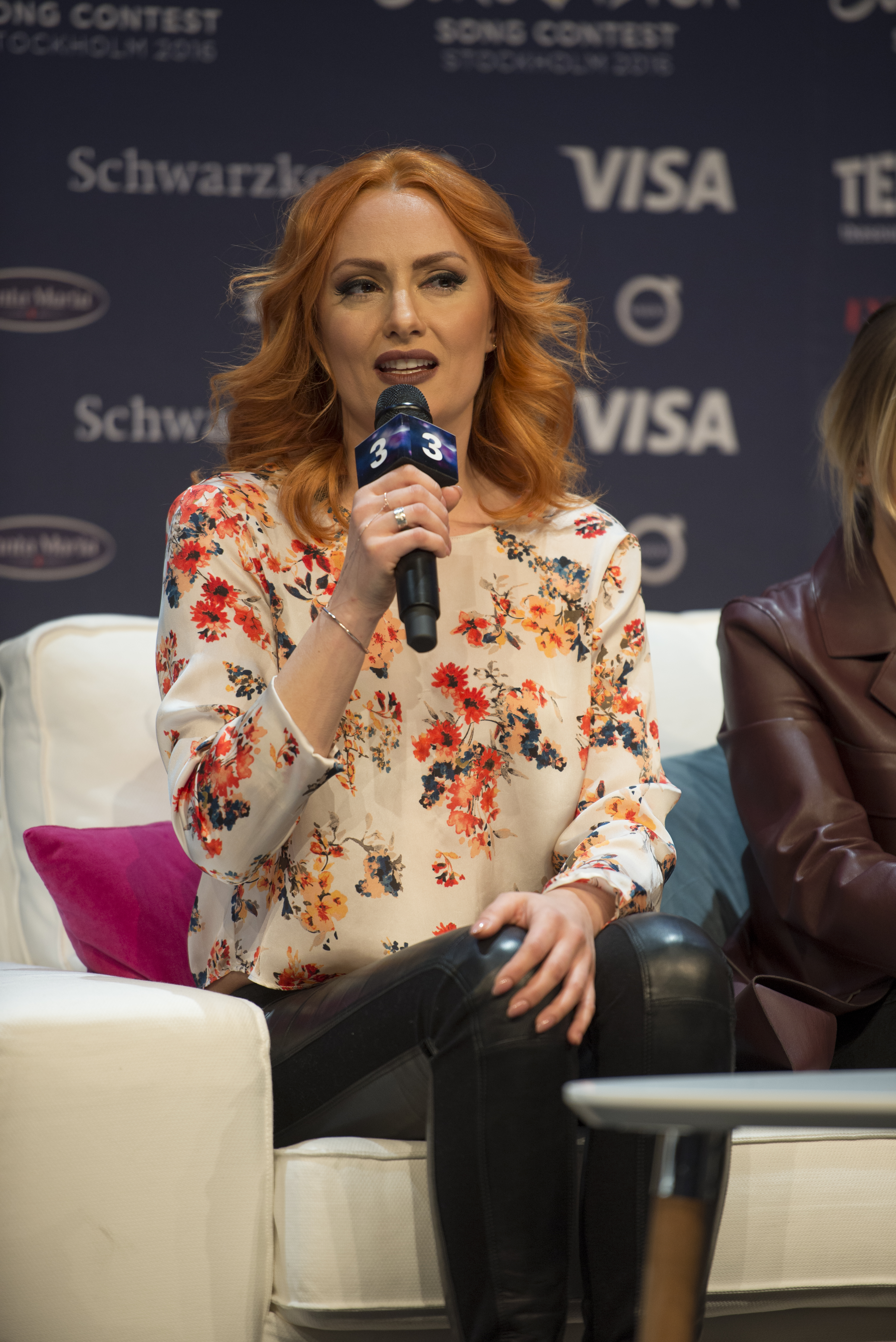 Eneda Tarifa at a Meet & Greet during the Eurovision Song Contest 2016 in Stockholm. (Help translate this text)